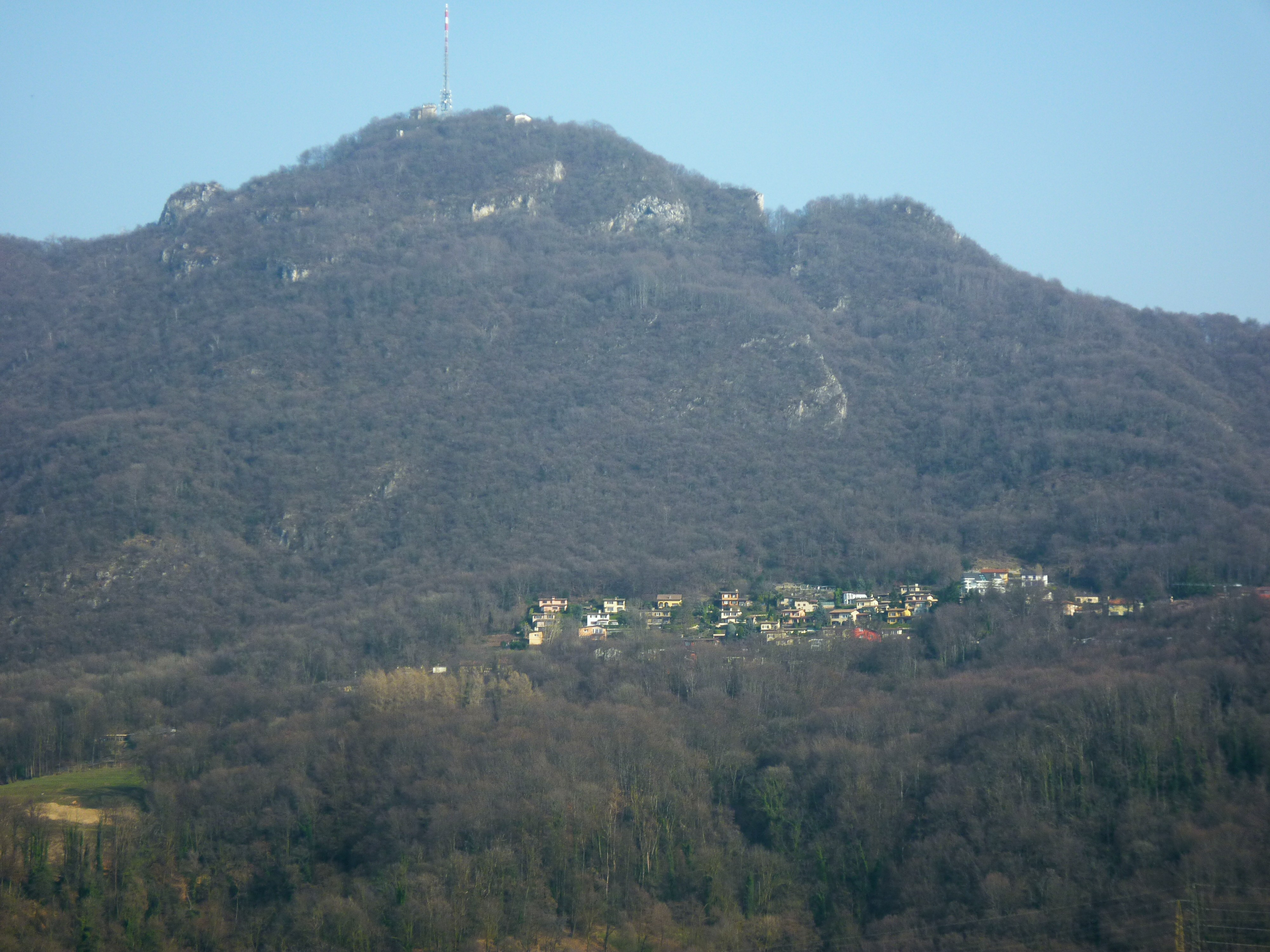 Northern part of the village of Carabbia under the San Salvatore (Canton of Ticino / Switzerland)